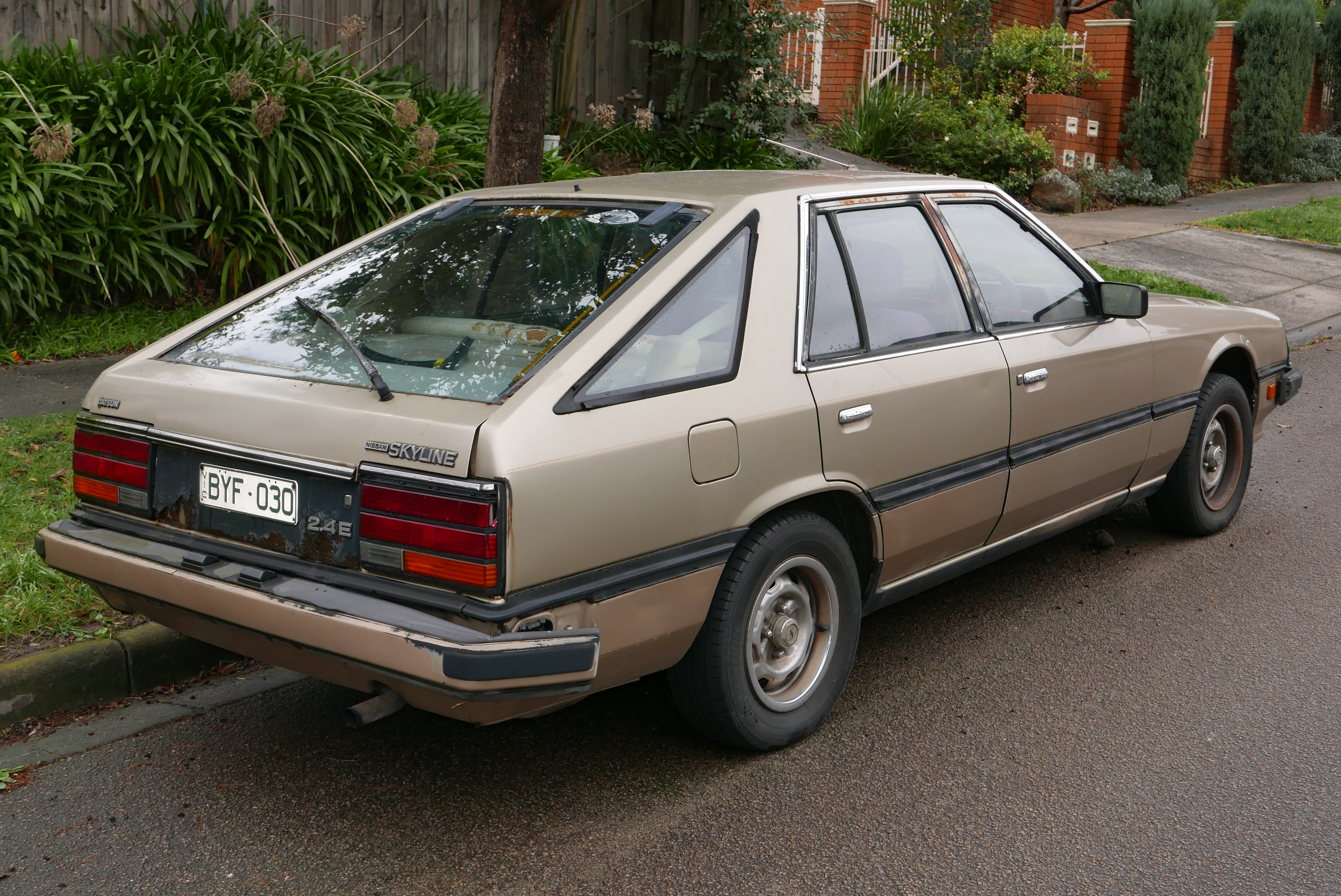 1983 Nissan Skyline (R30) 2.4E hatchback. Photographed in Doncaster East, Victoria, Australia. Vehicle registration enquiry results Jurisdiction Victoria Registration BYF030 Chassis code RMR30003562 Engine code L28589474 Compliance date 1983-08 Year of manufacture 1983